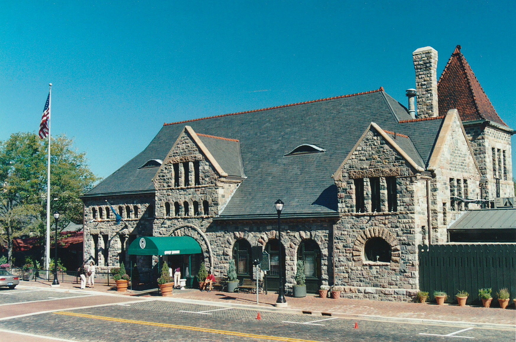 The old Ann Arbor train station